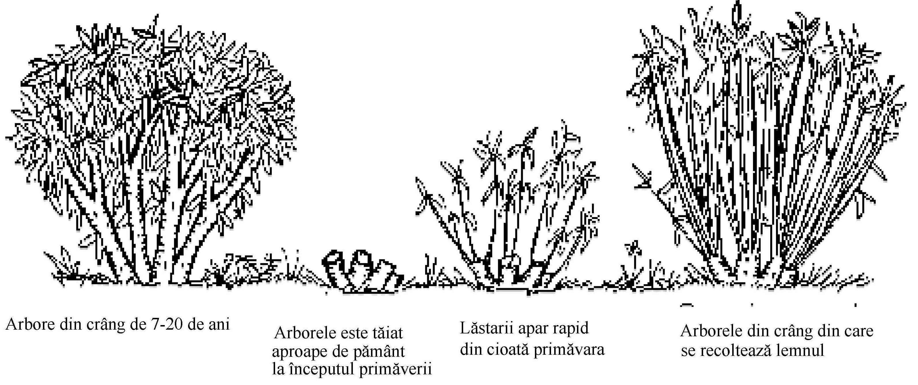 Coppice ro